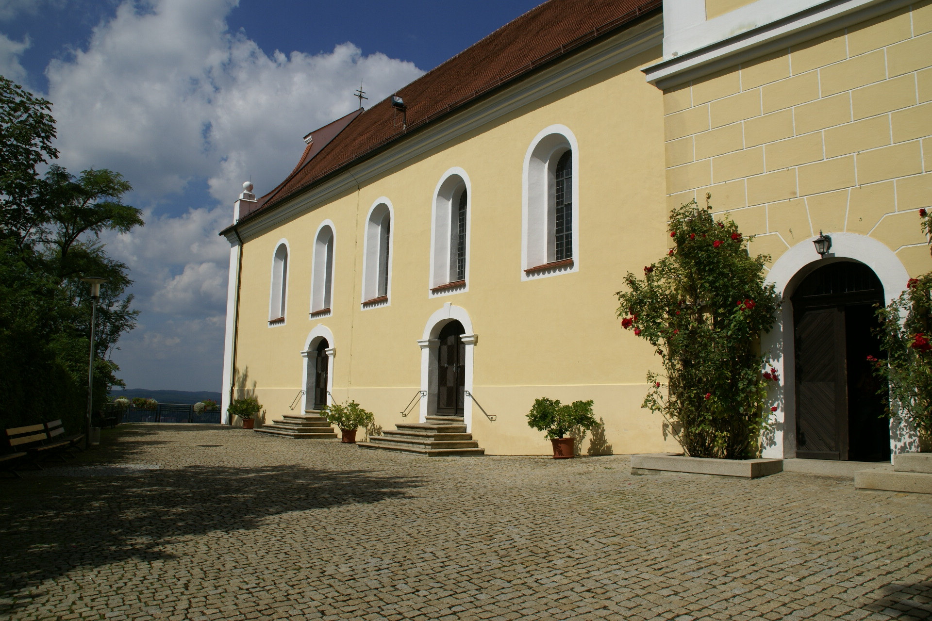 St. Anna Church at Annaberg in Sulzbach-Rosenberg (Germany)